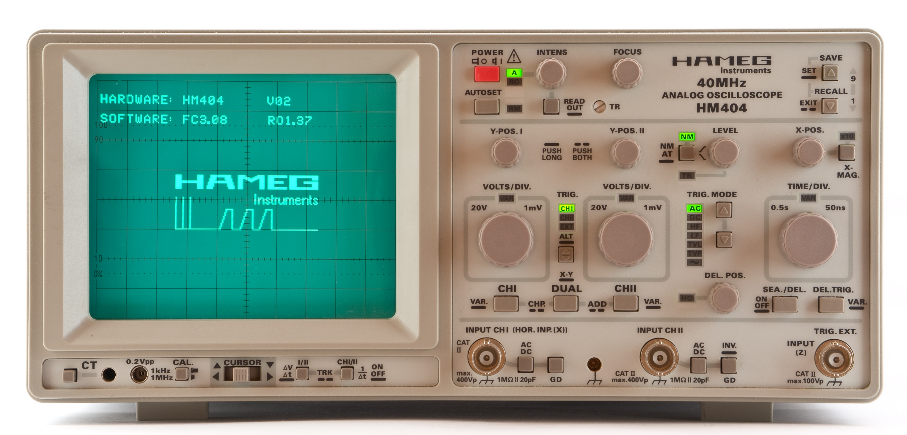 HAMEG Instruments HM404-2 40MHz Analog Oscilloscope from 1998.